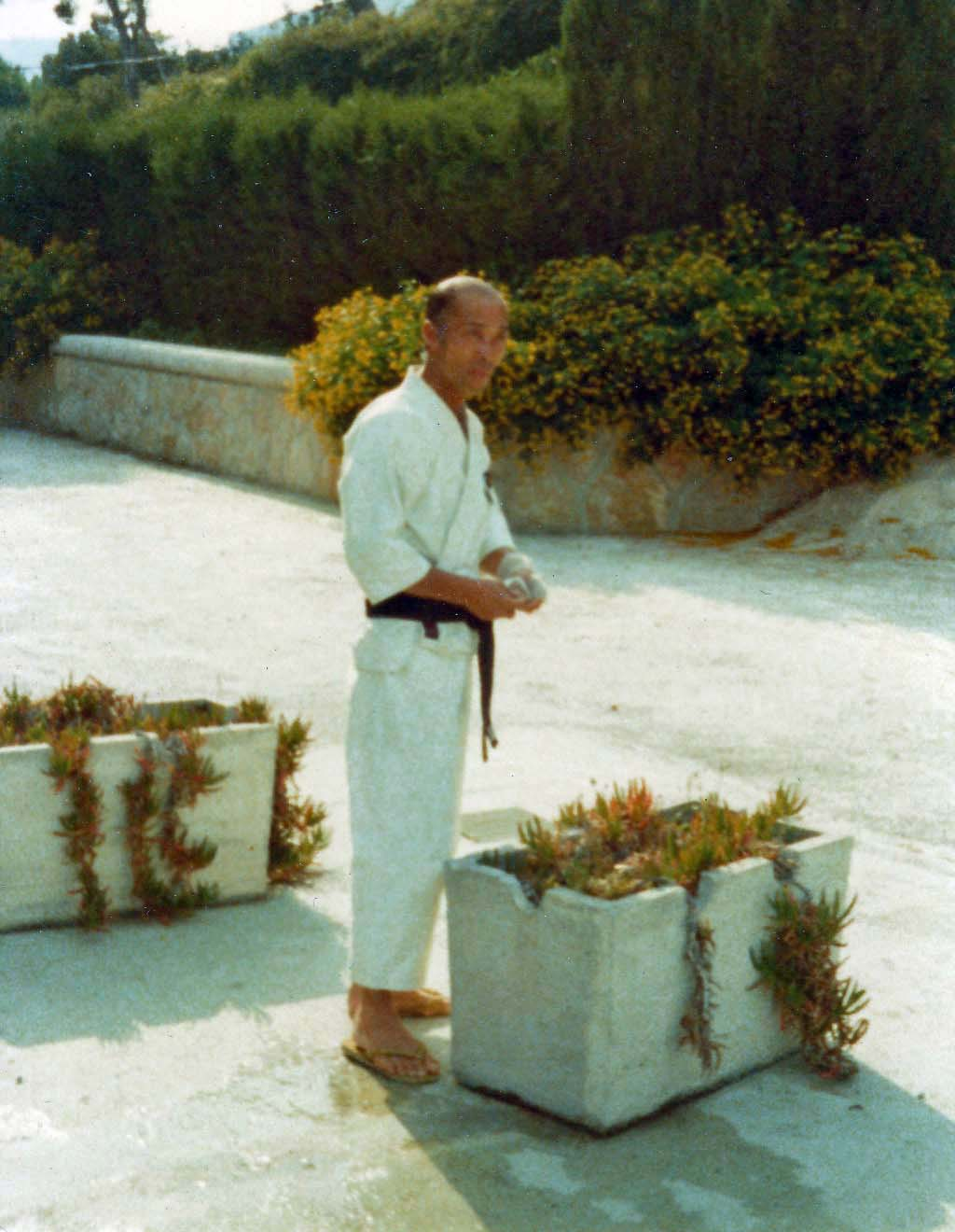 Sensei Tatsuo Suzuki, 47 years old, during a summer internship at Cap-d'Ail in 1975.